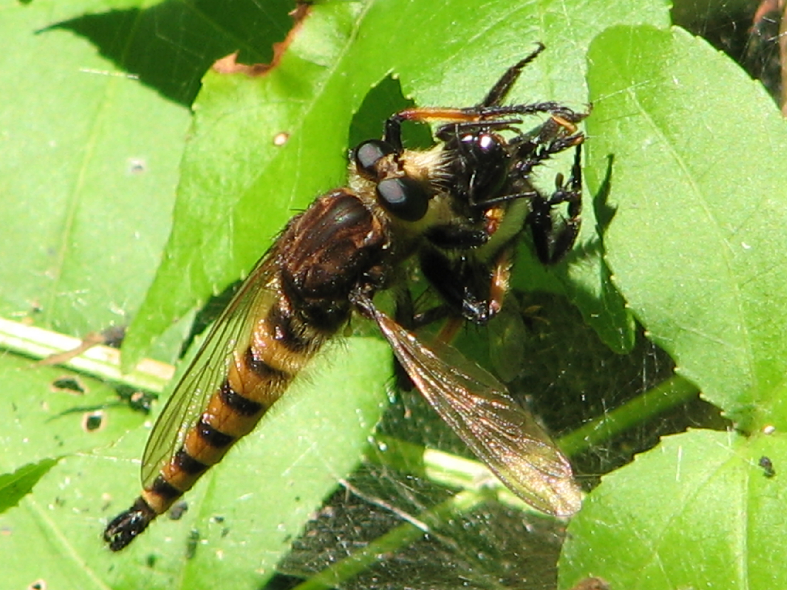 Promachus rufipes at Congaree National Park, South Carolina, USA